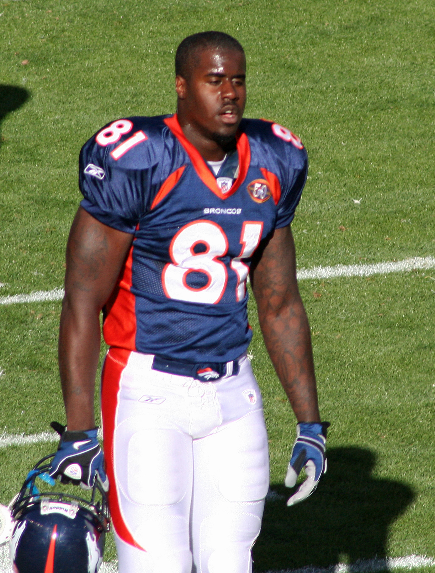 Richard Quinn, a player on the Denver Broncos American football team.